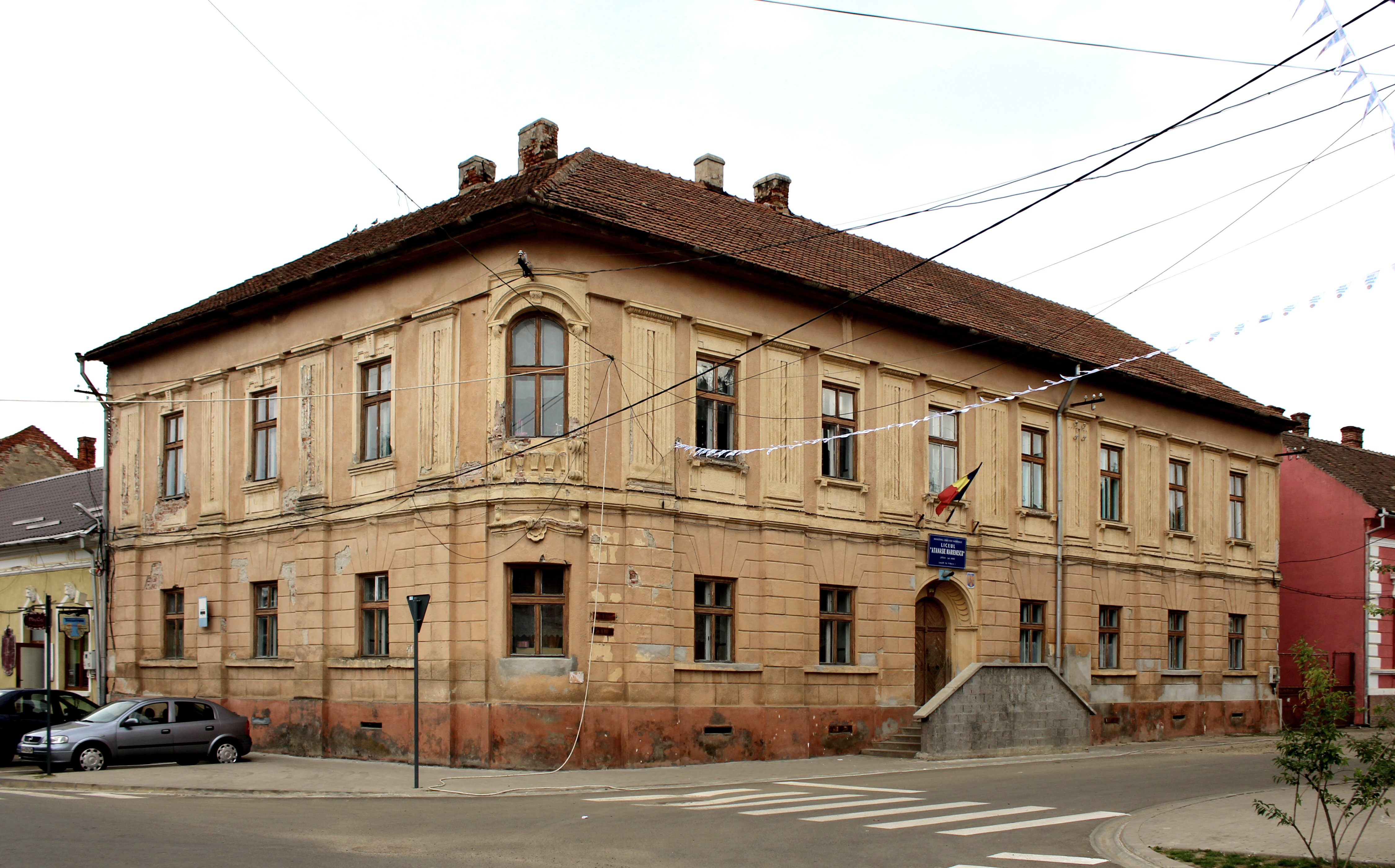 Atanasie Marinescu High School, Lipova, Romania, built begining of 19th century.